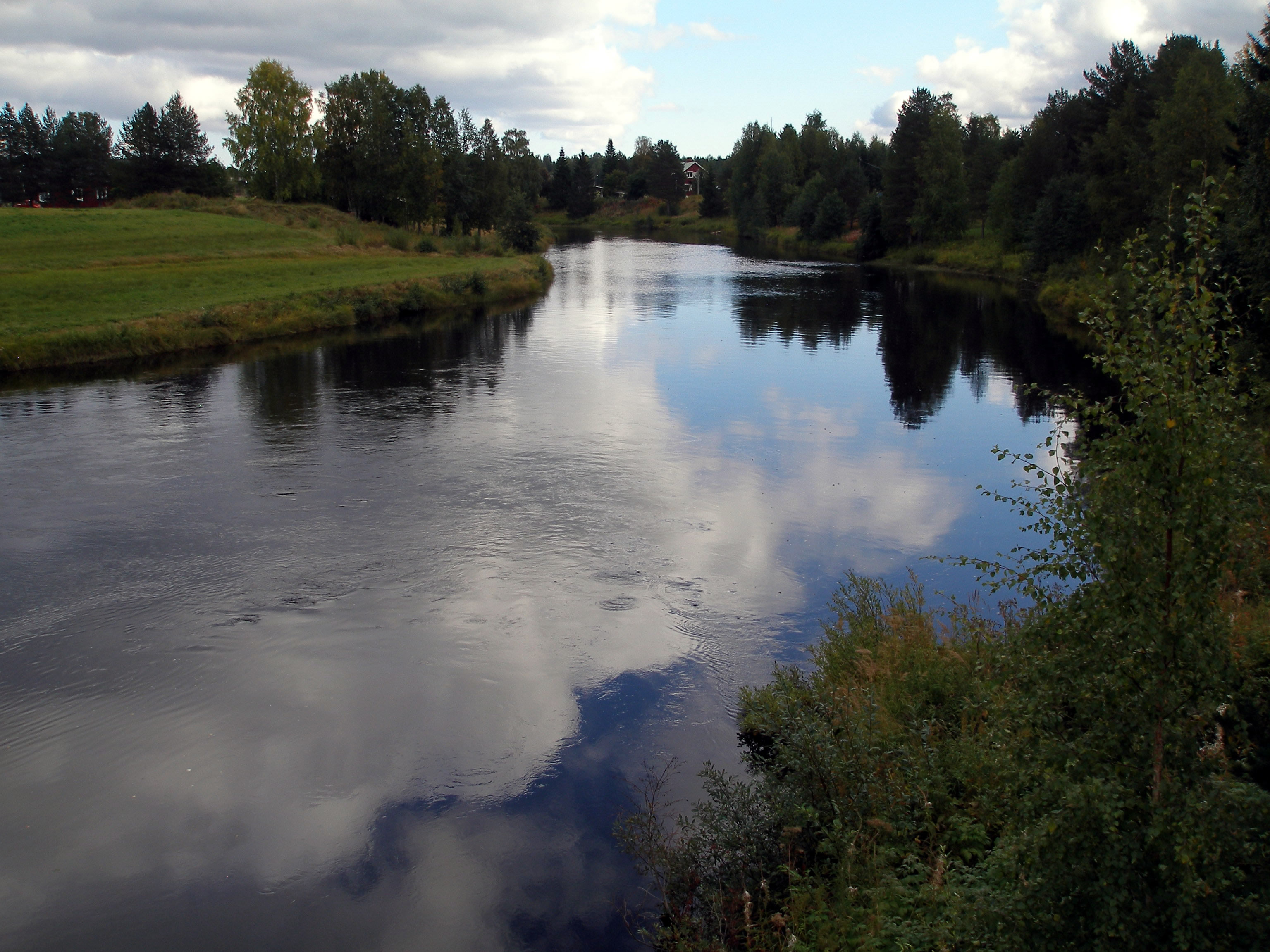 Åbyälven, a forrest river in Lapland, Norrbotten and Västerbotten, Sweden. Length approximately 165 km. Åbyälven has salmon, grayling and trout. The photograph taken in Ålund to the east.